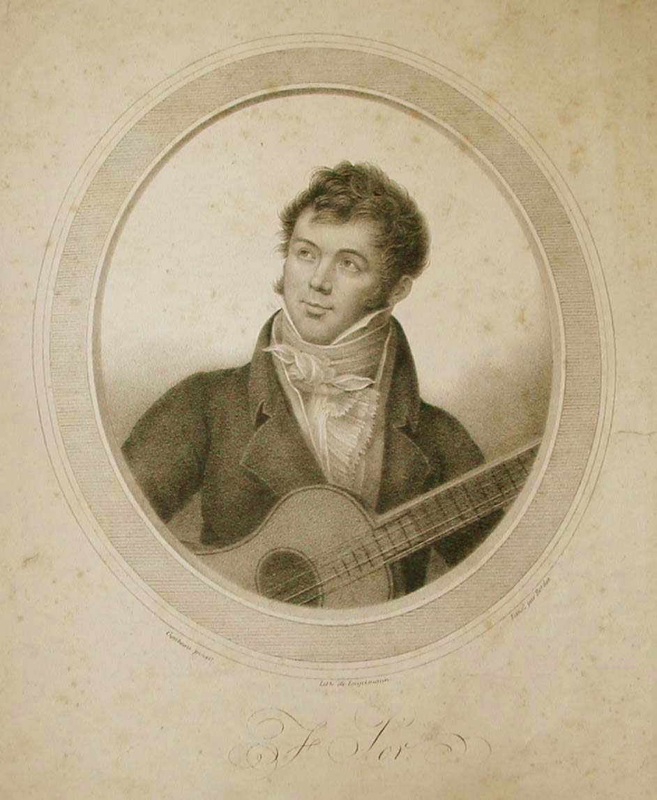 Fernando Sor. "Goubeau pinxit. Lith: de Engelmann. Litho.é par Bordes". Lithography by Gottfried Engelmann (1788-1839) and Joseph Bordes (1773-1835) after a lost painting by Innocent-Louis Goubaud. Ca. 1825.